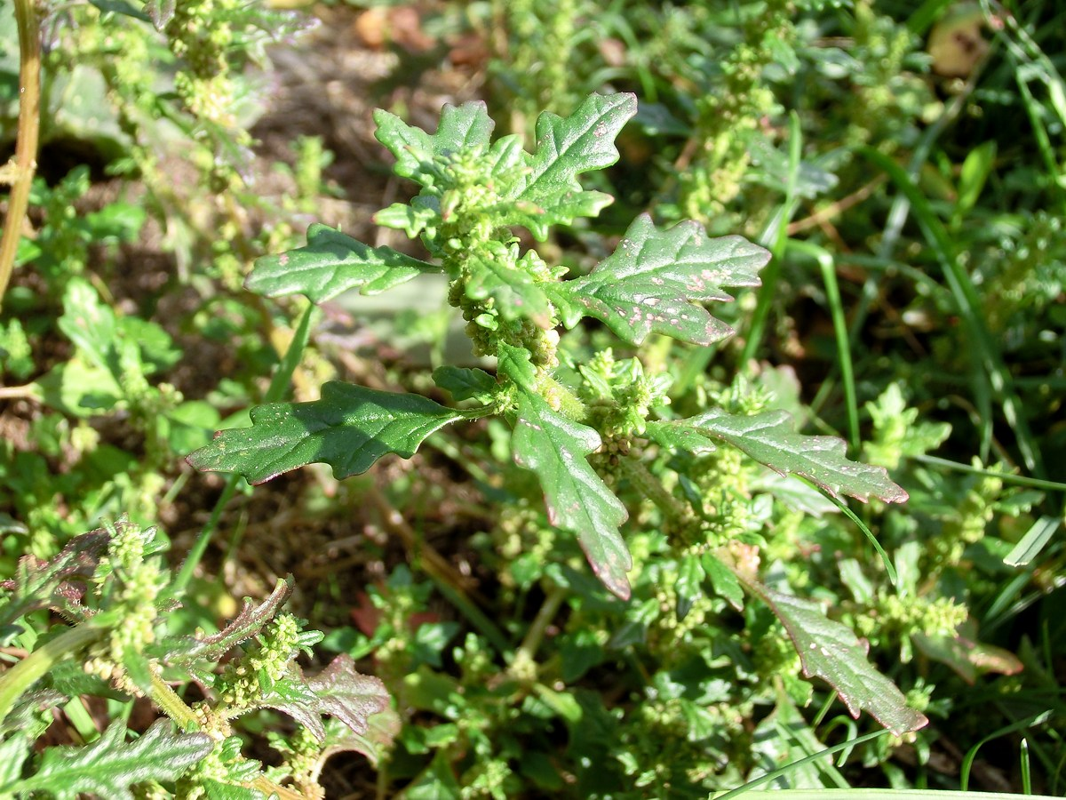 Dysphania pumilio. Babenhausen (Hesse, Germany), margin of sandy habitat "In den Rödern".